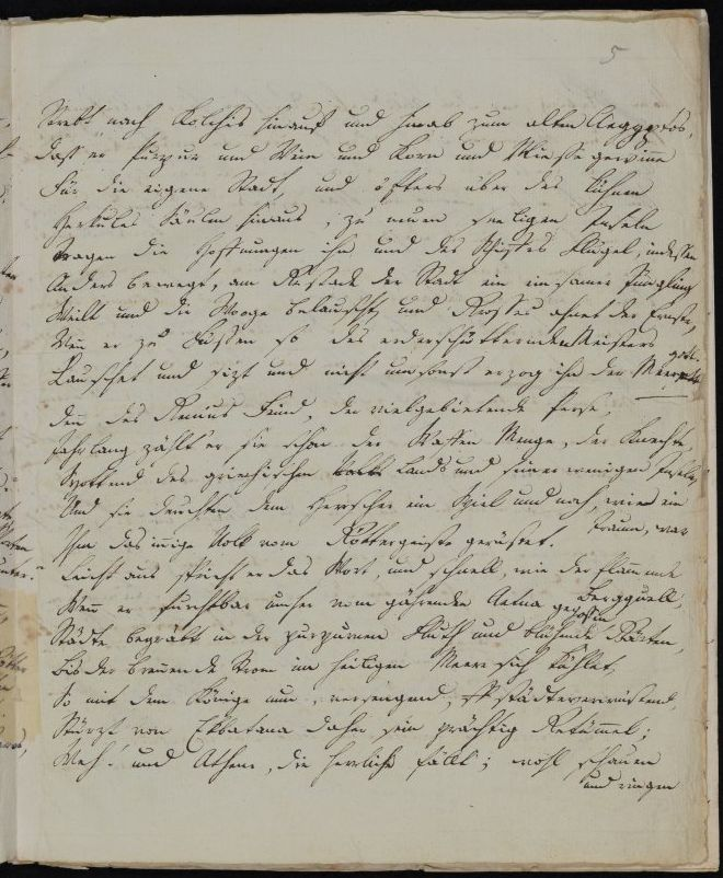 Manuscript of Friedrich Hölderlin: Der Archipelagus, page 5. From Homburg